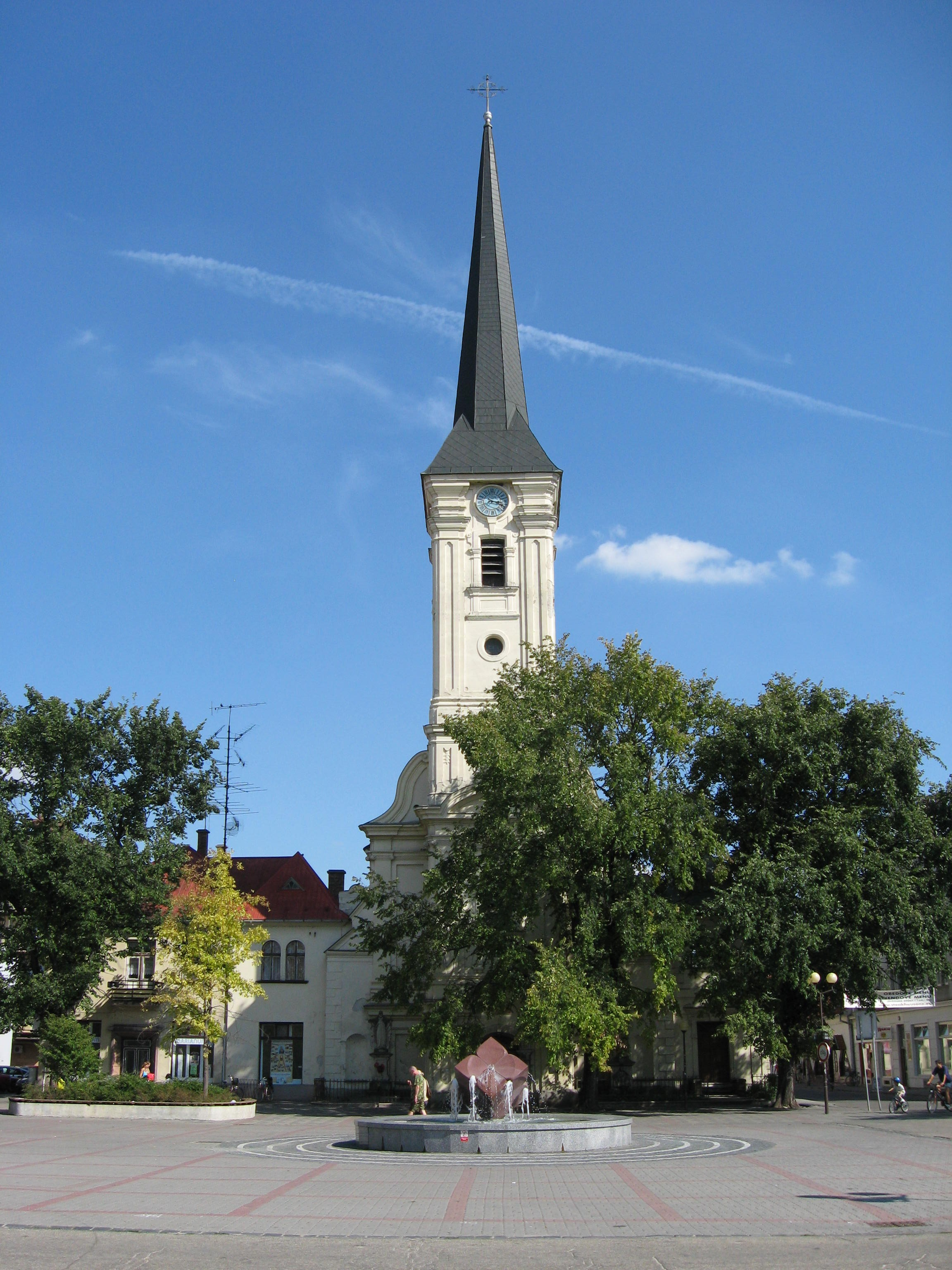 Church of Holy Cross in Nové Zámky